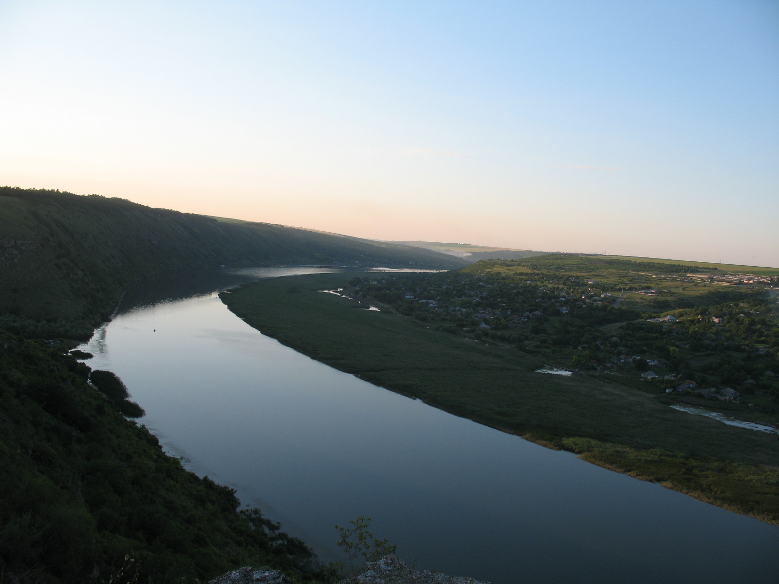 Dniester river near Ţipova, Rezina County, Moldova